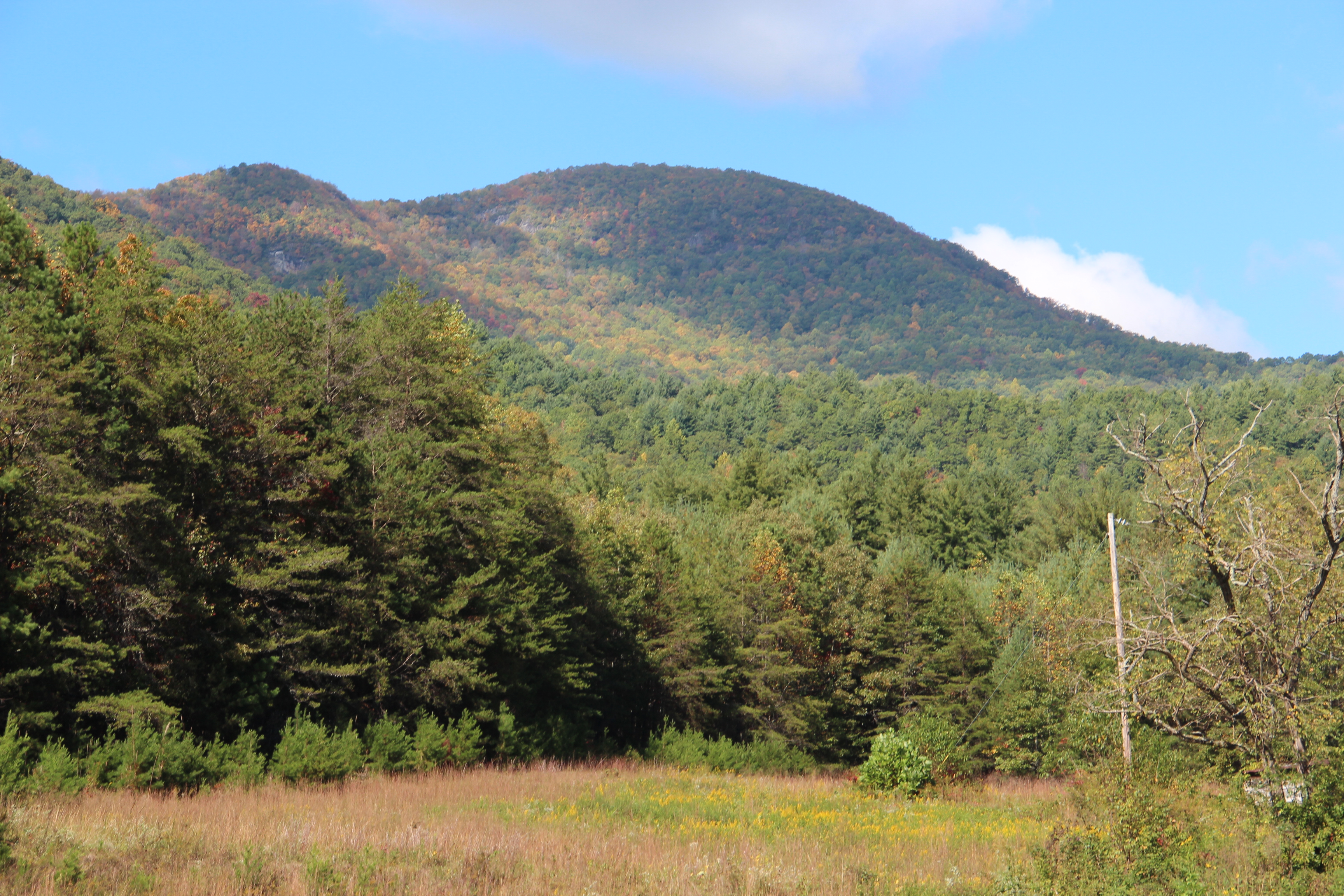 Hightower Bald viewed from Mount Pleasant Church